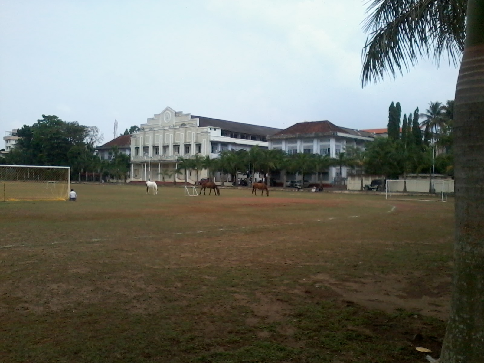 SH College Thevara. Kochin, India